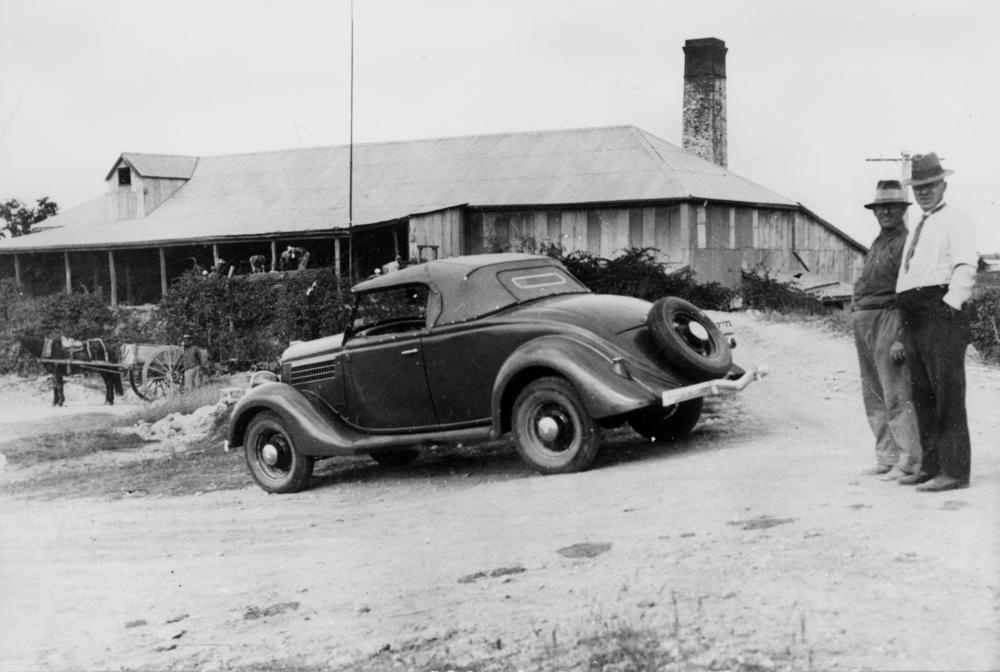 Venus Crushing Works at Charters Towers, ca. 1935. Venus Battery opened 1872 and closed 1972. Script at back of photograph reads: E. J. Lawn, Mines Inspector Mr J. Douglas.' (Description supplied with photograph.). The car in the photograph is a 1935 Ford V8 roadster, powered by an 85hp. 'flathead' V8 engine. The car is set up with a large luggage compartment, rather than having a 'dickey seat' in the rear compartment as was popular with many private owners.